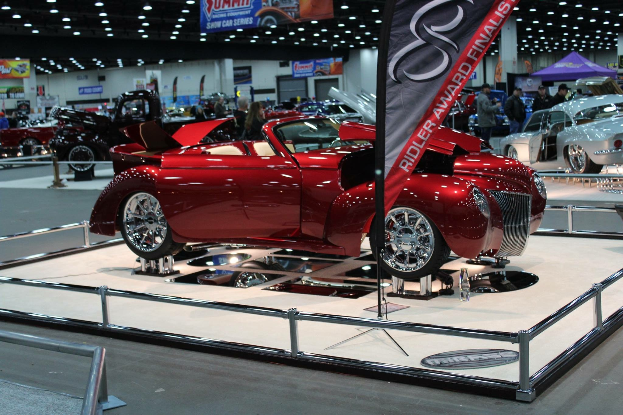 Richard Broyke's customized 1941 Ford Pickup was one of seven "Pirelli Great 8" contenders in 2016.